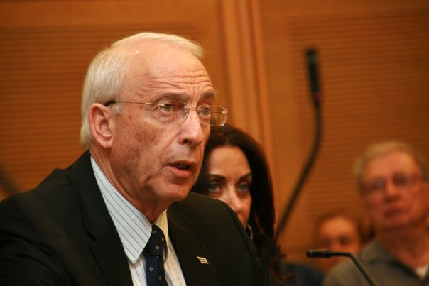 MK Ze'ev Boim, Kadima Party (Israel). Photo by: Itzik Edri, Kadima Party PR Team